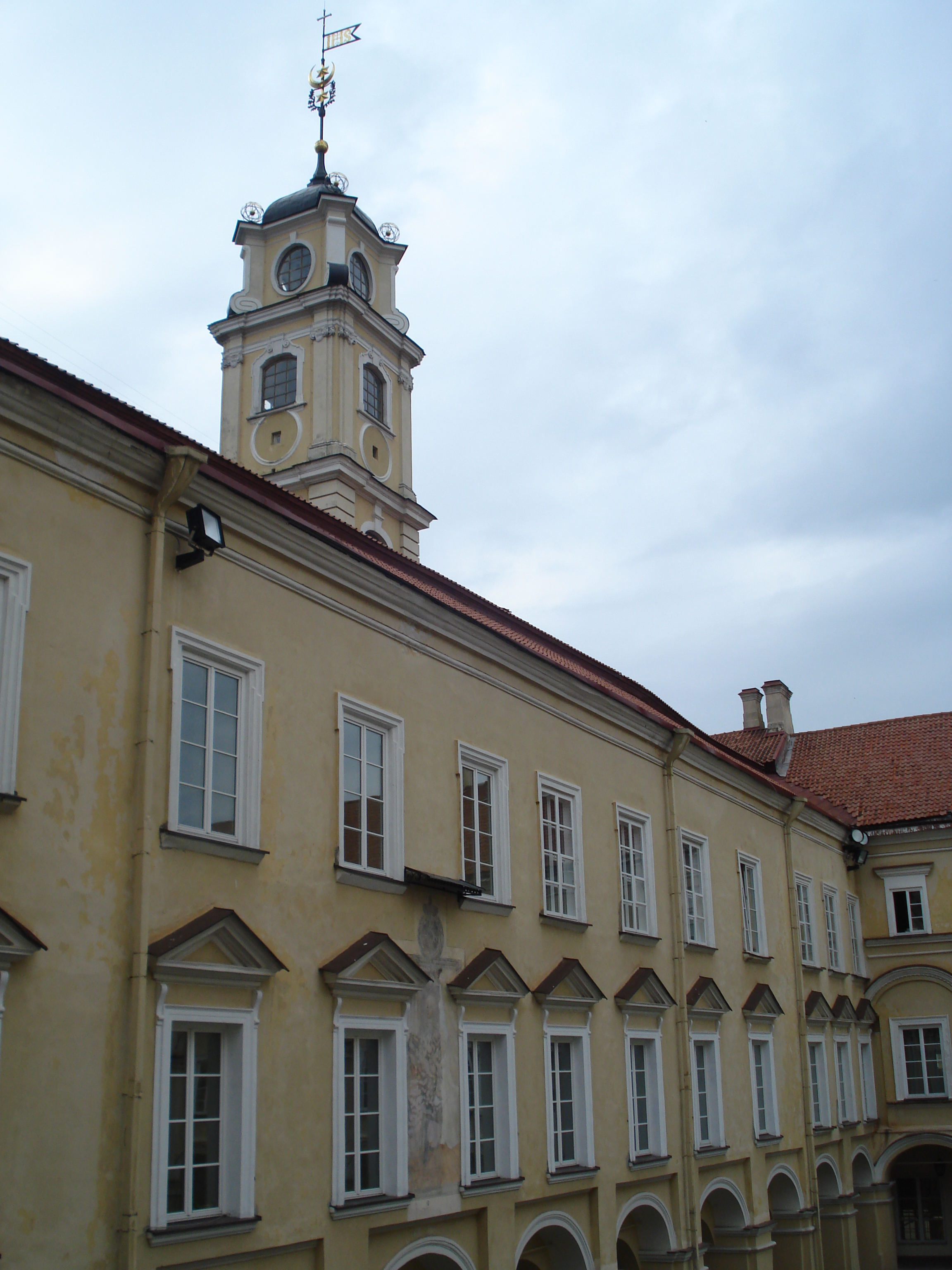 Vilnius University. Great Courtyard